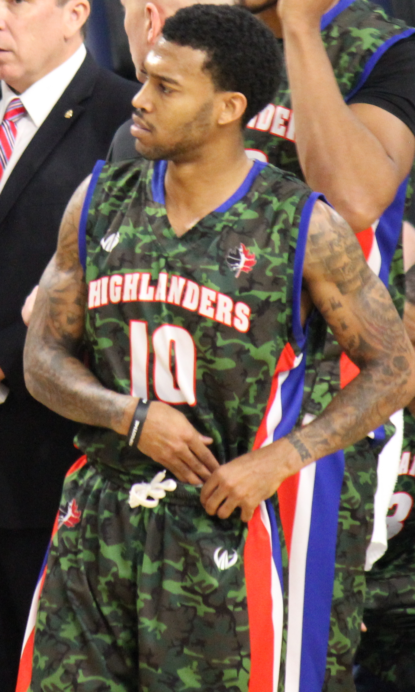 Playing Halifax